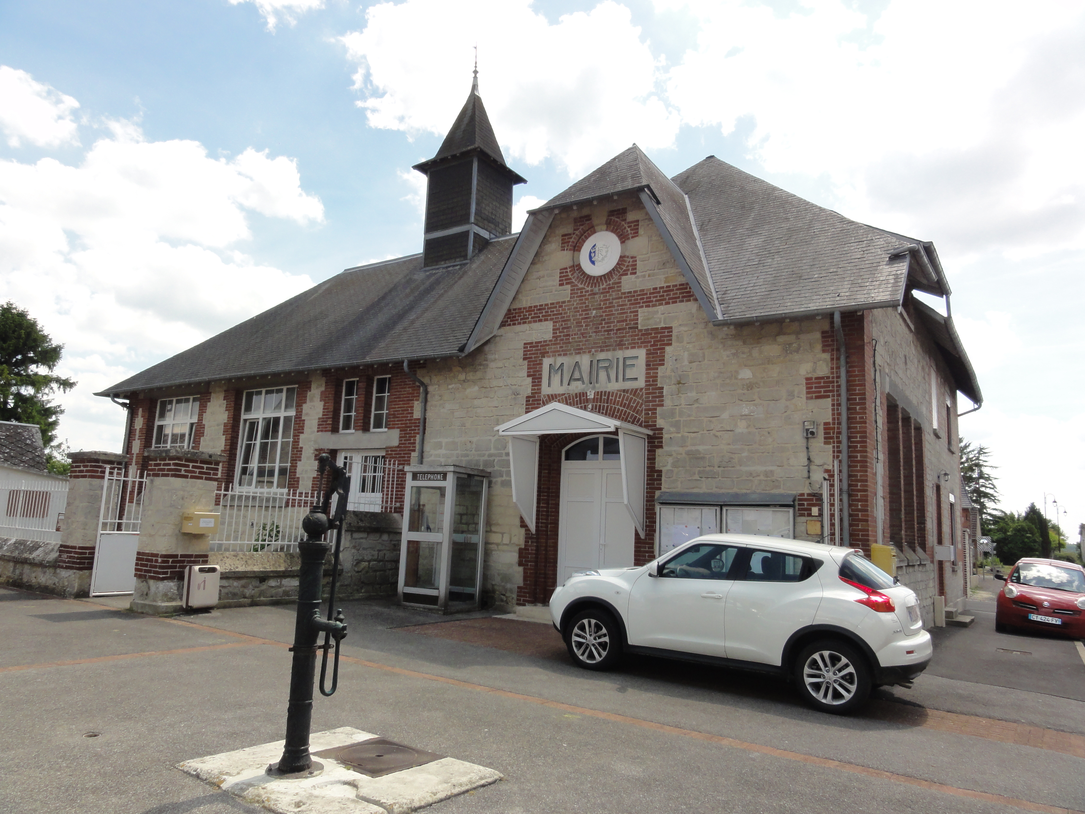 Monampteuil (Aisne) mairie